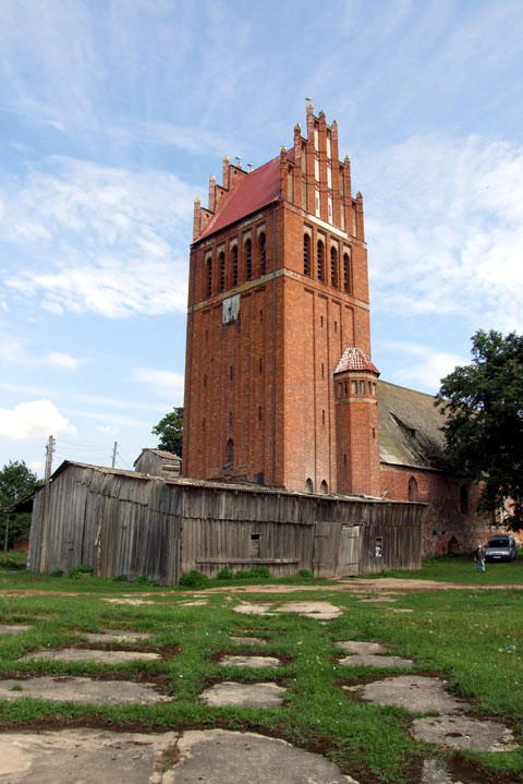 15th century City church in the town Druzhba, Kaliningradskaya oblast', Russia (formerly Allenburg in East Prussia).